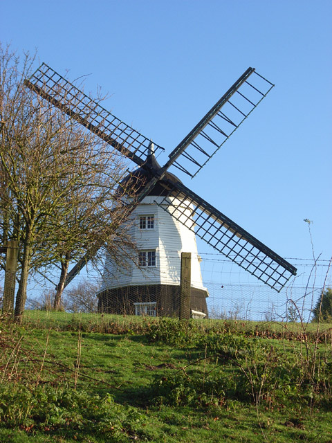 The windmill, Turville. Now a house, the mill was a film location for Chitty Chitty Bang Bang